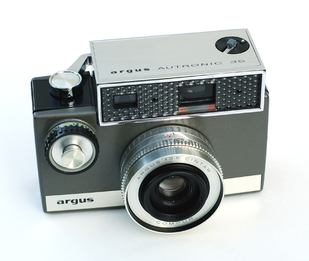 Another funky camera from Argus, made from 1960-62. This camera is larger than I expected it to be -- like the "brick", but with that block on top which houses the meter and view/rangefinder. I'm pretty sure if you dropped this camera onto the sidewalk, you'd crack the concrete.